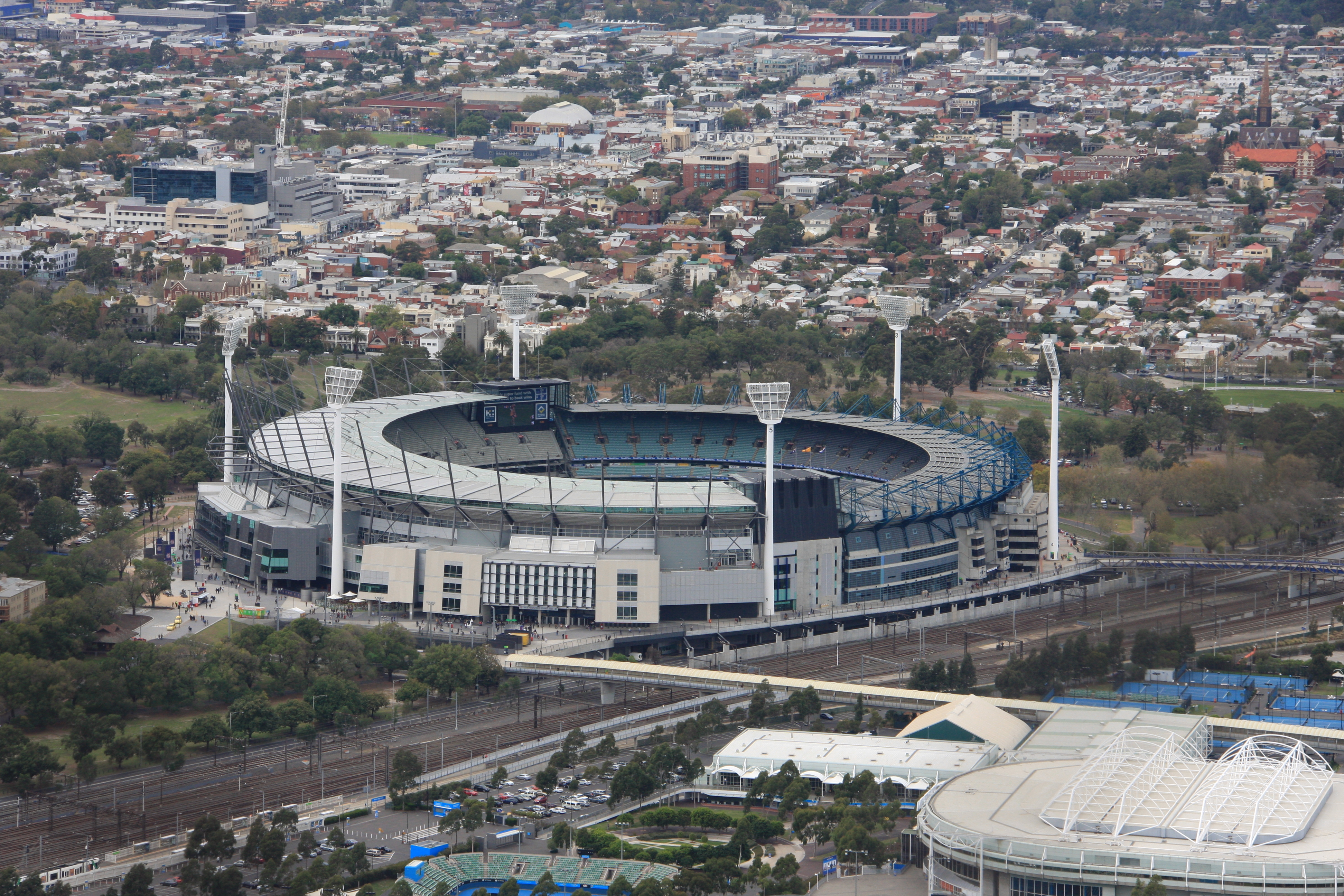 Melbourne Cricket ground as seen from the worlds tallest residential building the Eureka Tower